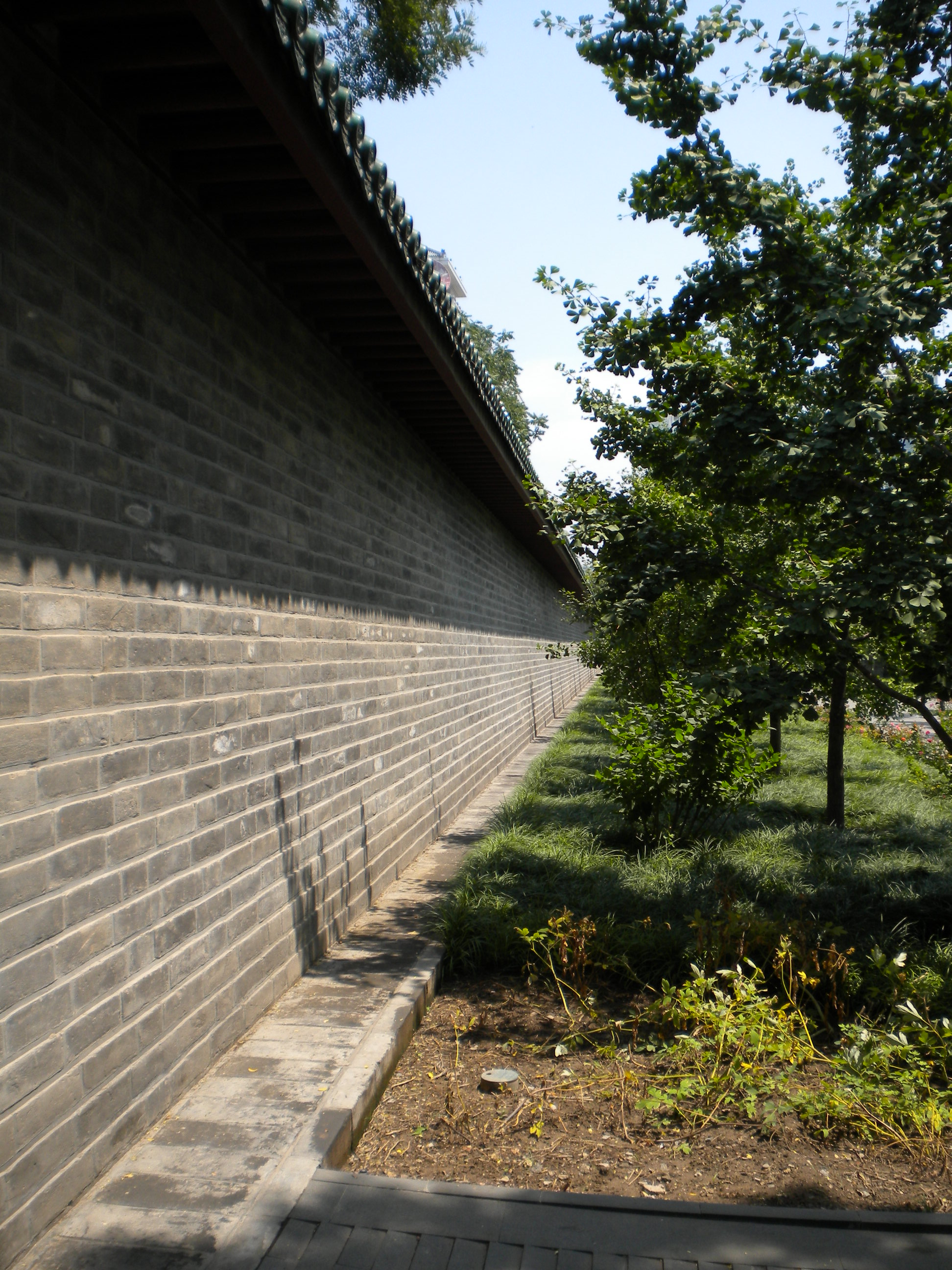 北京月坛坛墙/Temple Wall (rebuilt, Temple of the Moon, Beijing)